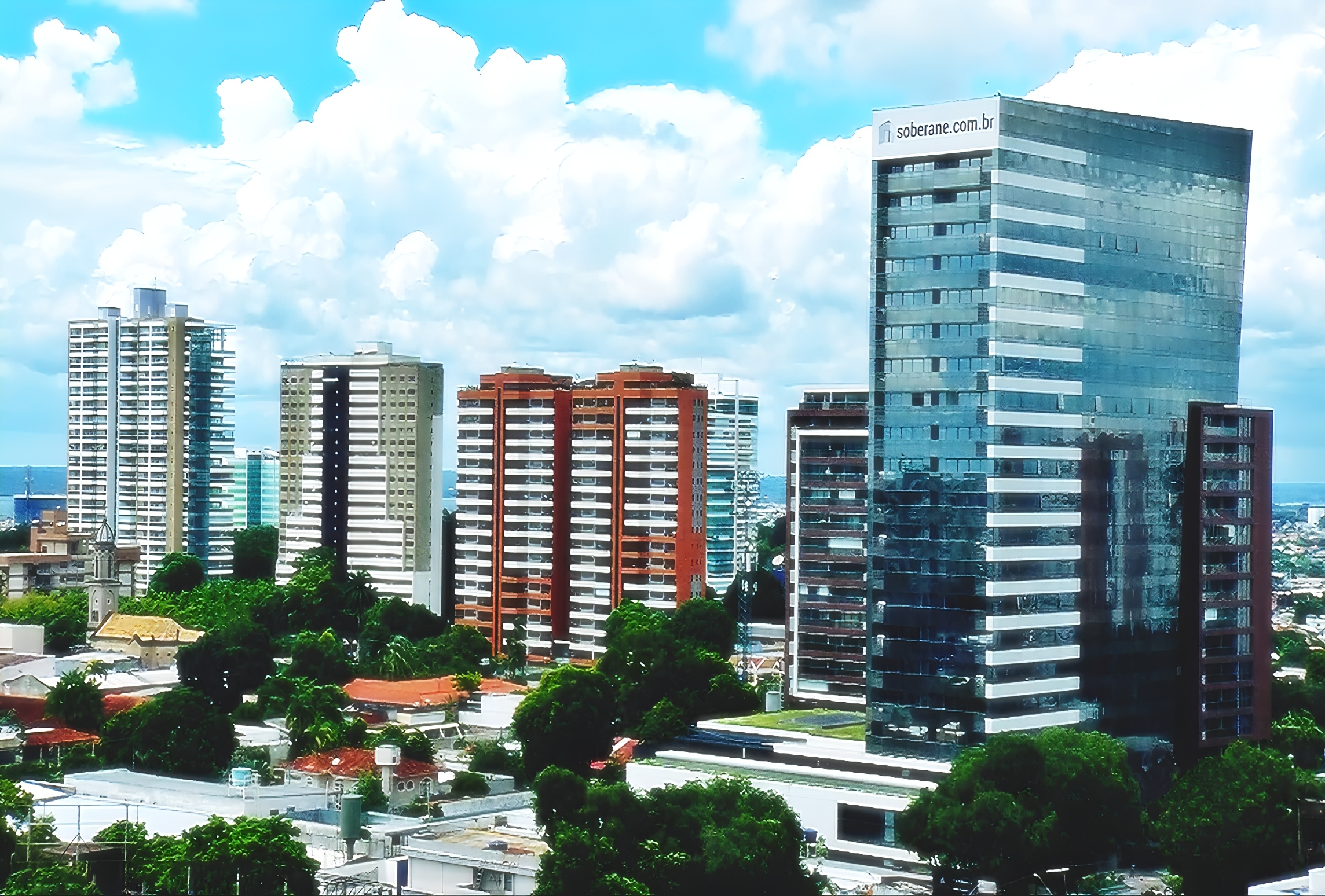 Soberane Live + Work Building in Manaus, Amazonas State, Brazil.